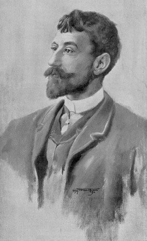 Portrait of Louis-Maurice Boutet de Monvel